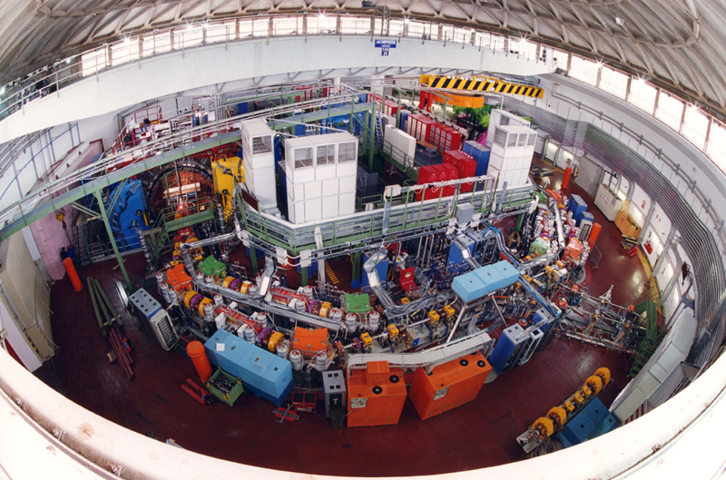 Panoramica della sala del collisionatore e+e- DAFNE dei Laboratori Nazionali di Frascati dell'INFN